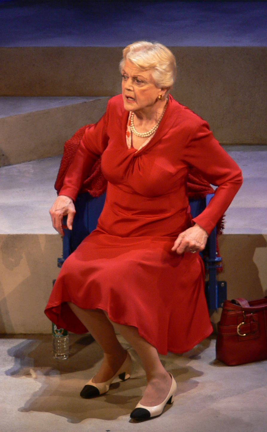 Angela Lansbury back on Broadway, in Terence McNally's play "Deuce"